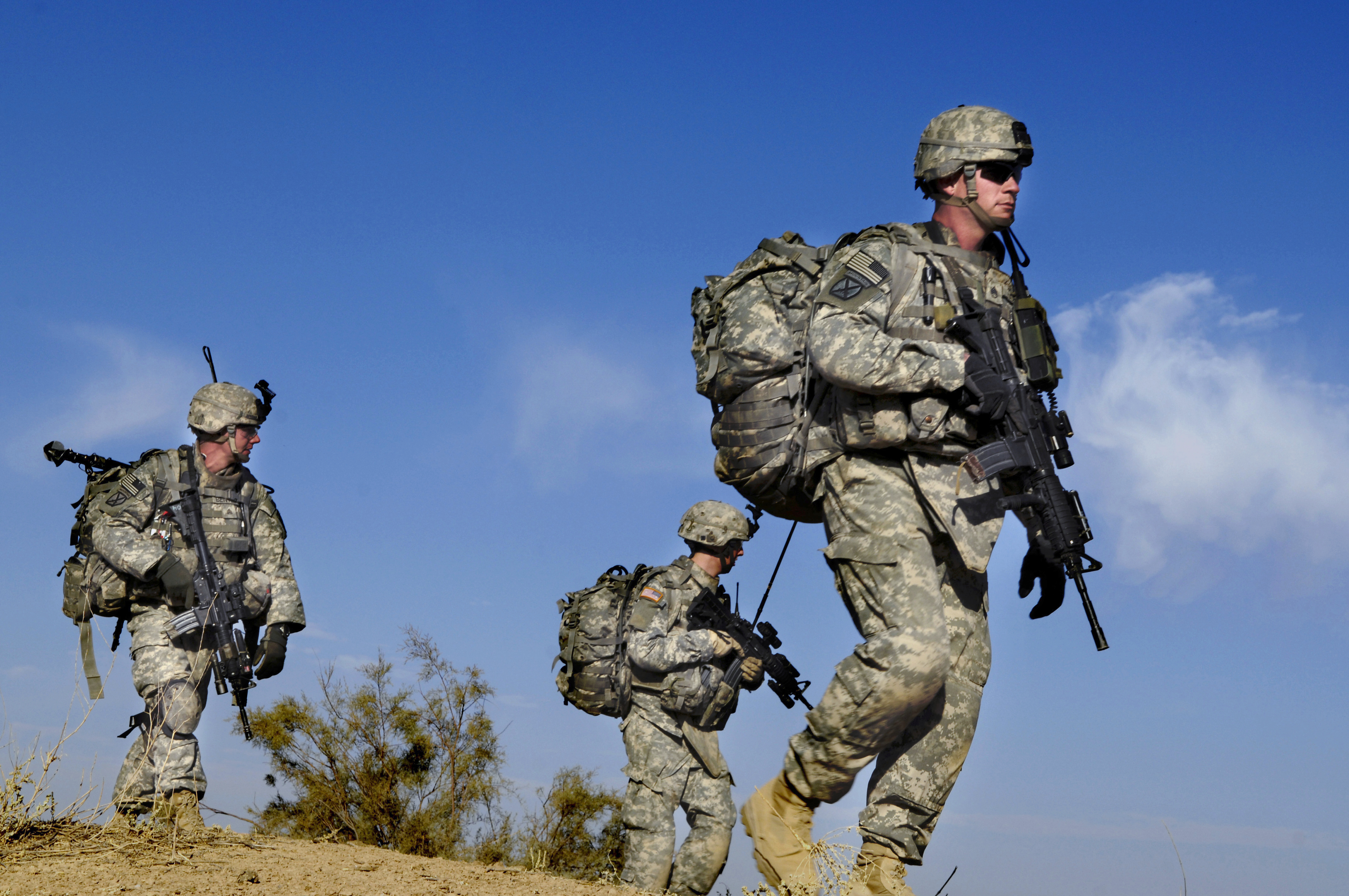 U.S. Army Soldiers from Charlie Company, 2nd Battalion, 22nd Infantry Regiment, 1st Brigade Combat Team, 10th Mountain Division and Iraqi army soldiers look for training camps and weapon caches along the Zaghytun Chay River, about 50 miles southeast of K irkuk, Iraq, Nov. 18, 2007.